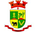 Coat of arms of the city of Ciríaco, Rio Grande do Sul, Brazil.